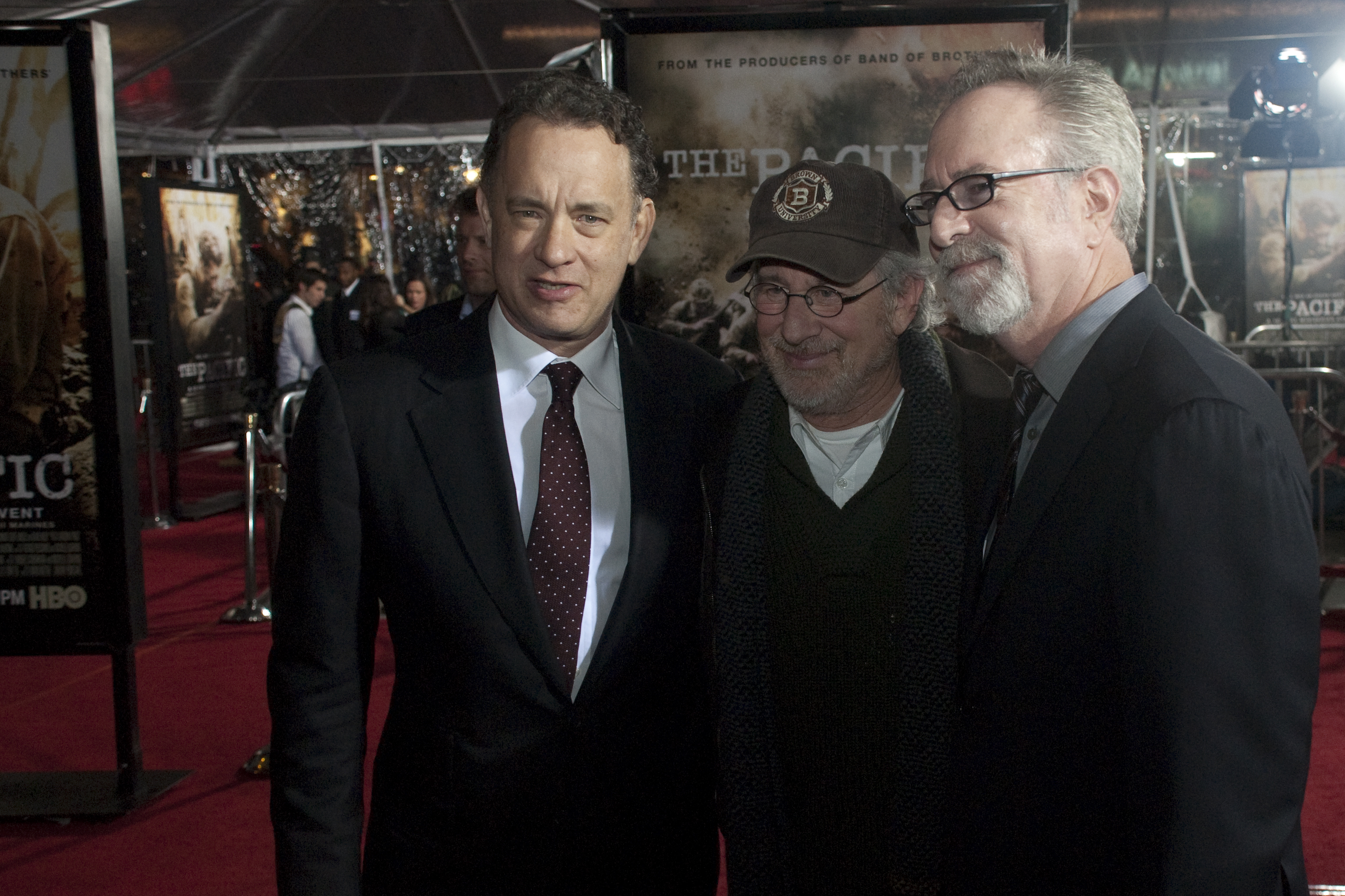 Executive Producers Steven Spielberg, Tom Hanks and Gary Goetzman pose for pictures on the red carpet at HBO's Hollywood premiere for 'The Pacific' at Grauman's Chinese Theater Feb. 24. The same A-list trio that brought Stephen Ambrose's book 'Band of Brothers' to the screen in 2001 unveiled the first episode of their long-awaited follow-up to 'Band of Brothers.'